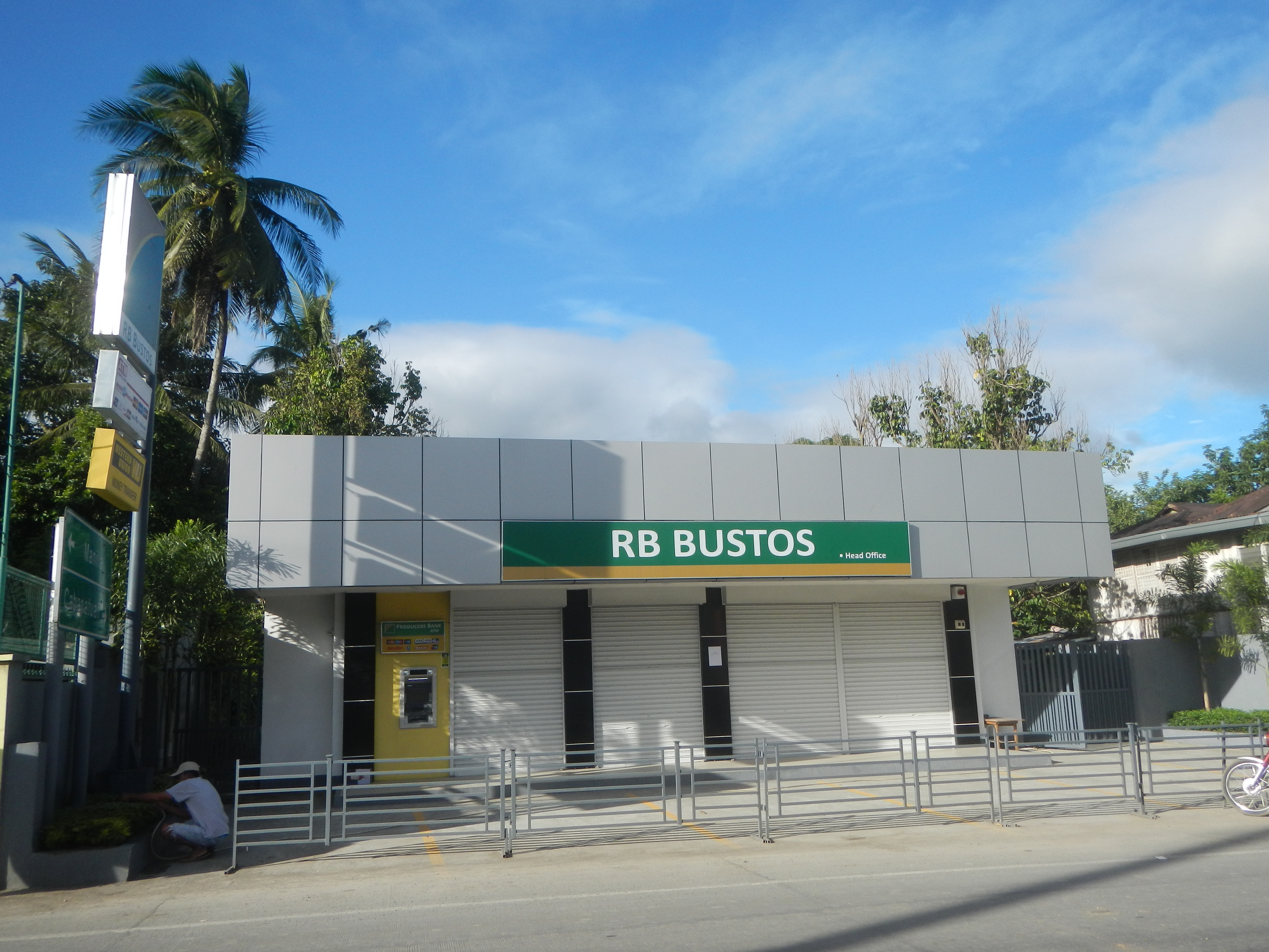 RB Bustos in Bonga Menor, Bustos, Bustos, Bulacan (Note: Judge Florentino Floro, the owner, to repeat, Donor Florentino Floro of all these photos hereby donate gratuitously, freely and unconditionally all these photos to and for Wikimedia Commons, exclusively, for public use of the public domain, and again without any condition whatsoever).